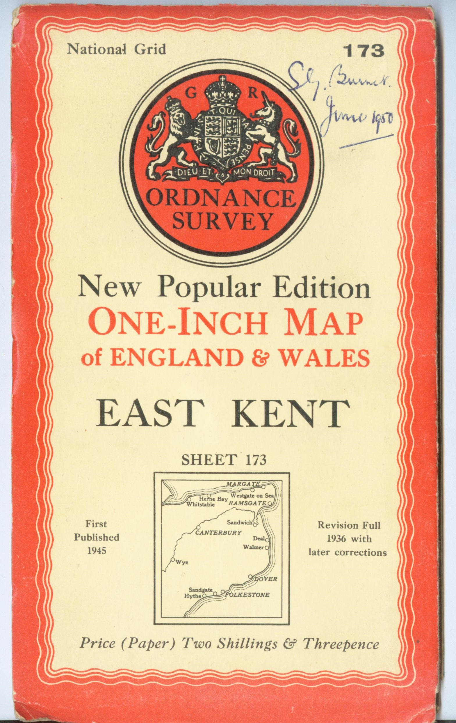 Cover of Ordnance Survey book